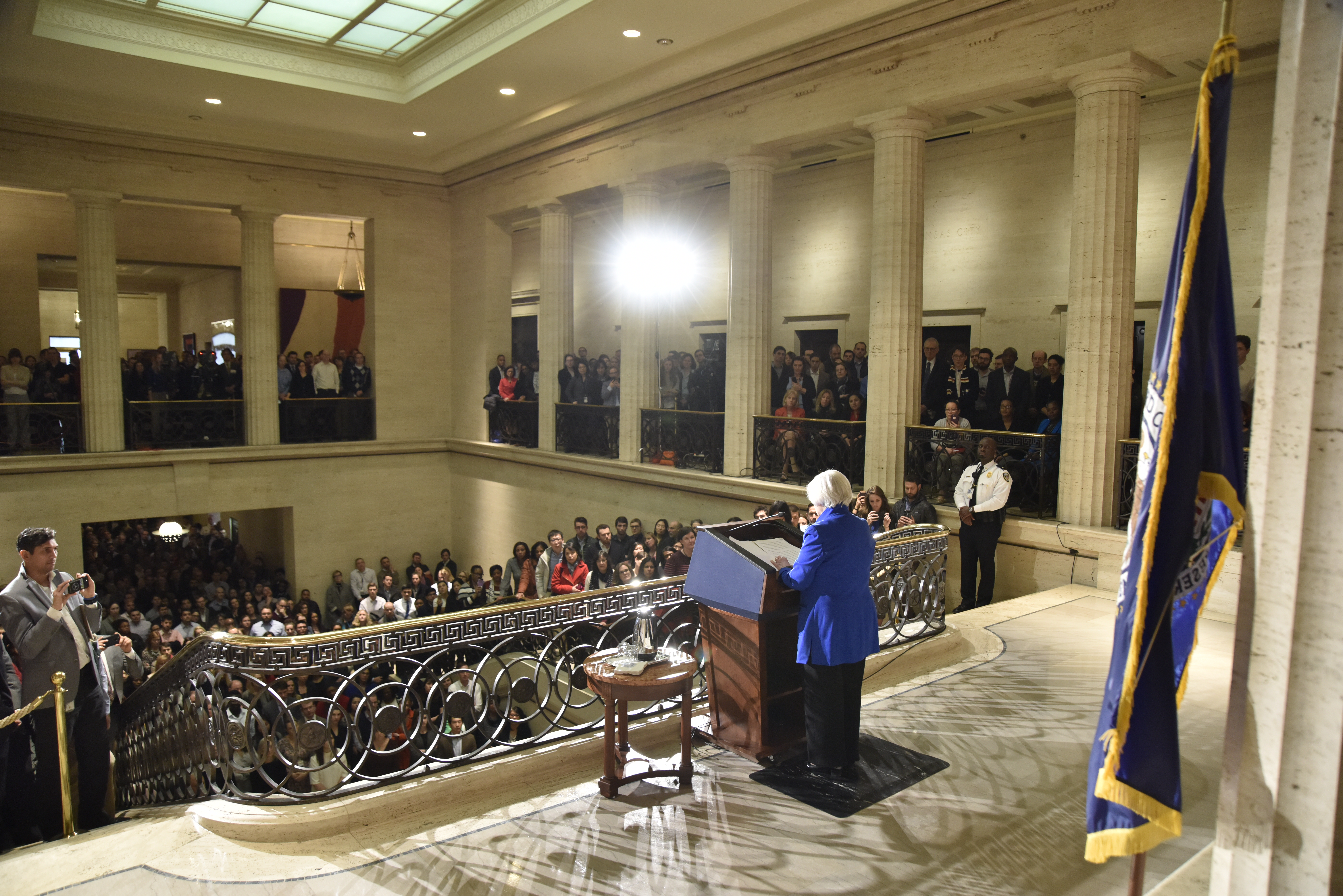 Staff bids farewell to Chair Janet Yellen as she finishes her 4-year term